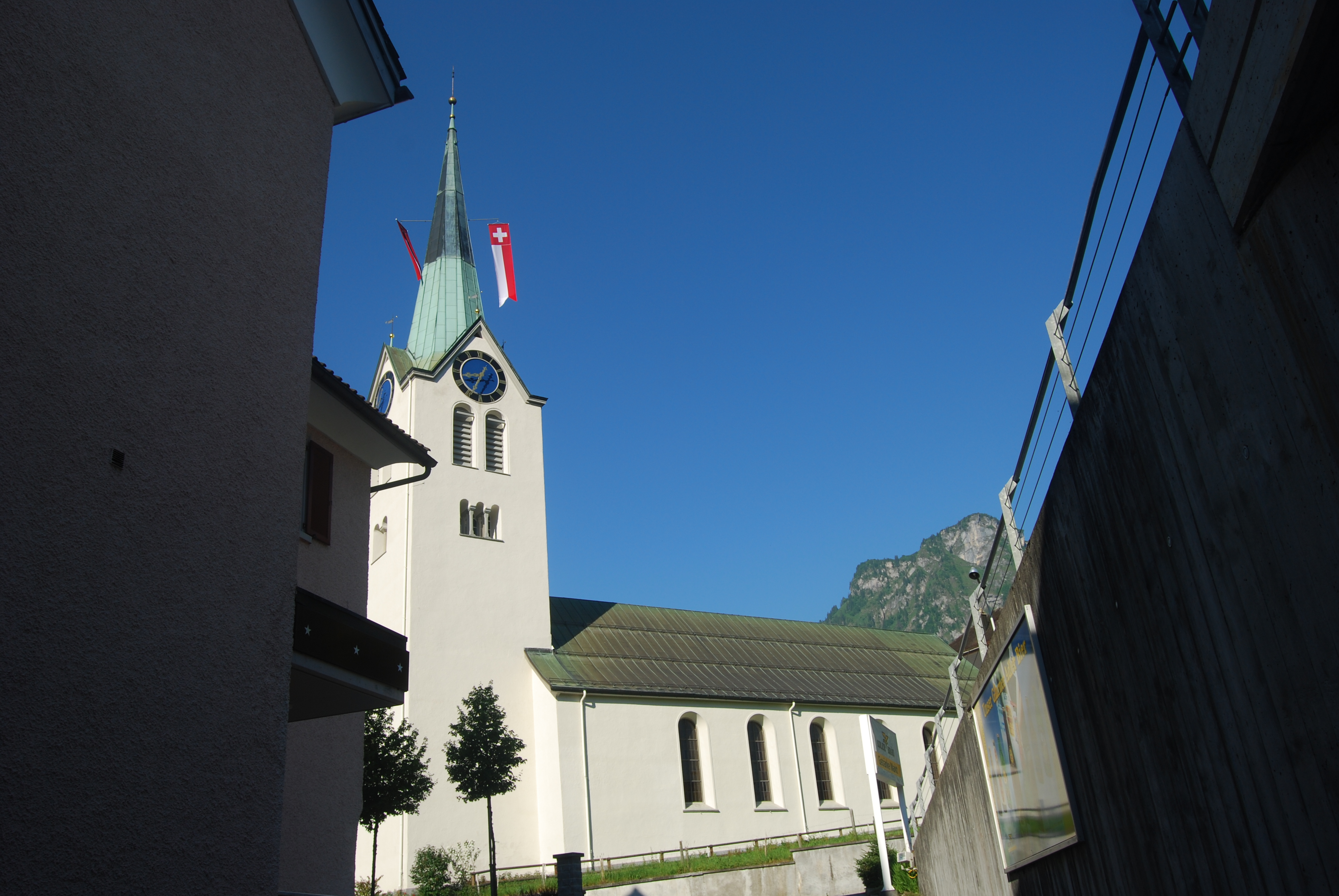 Church of Schwanden, canton of Glarus, Switzerland